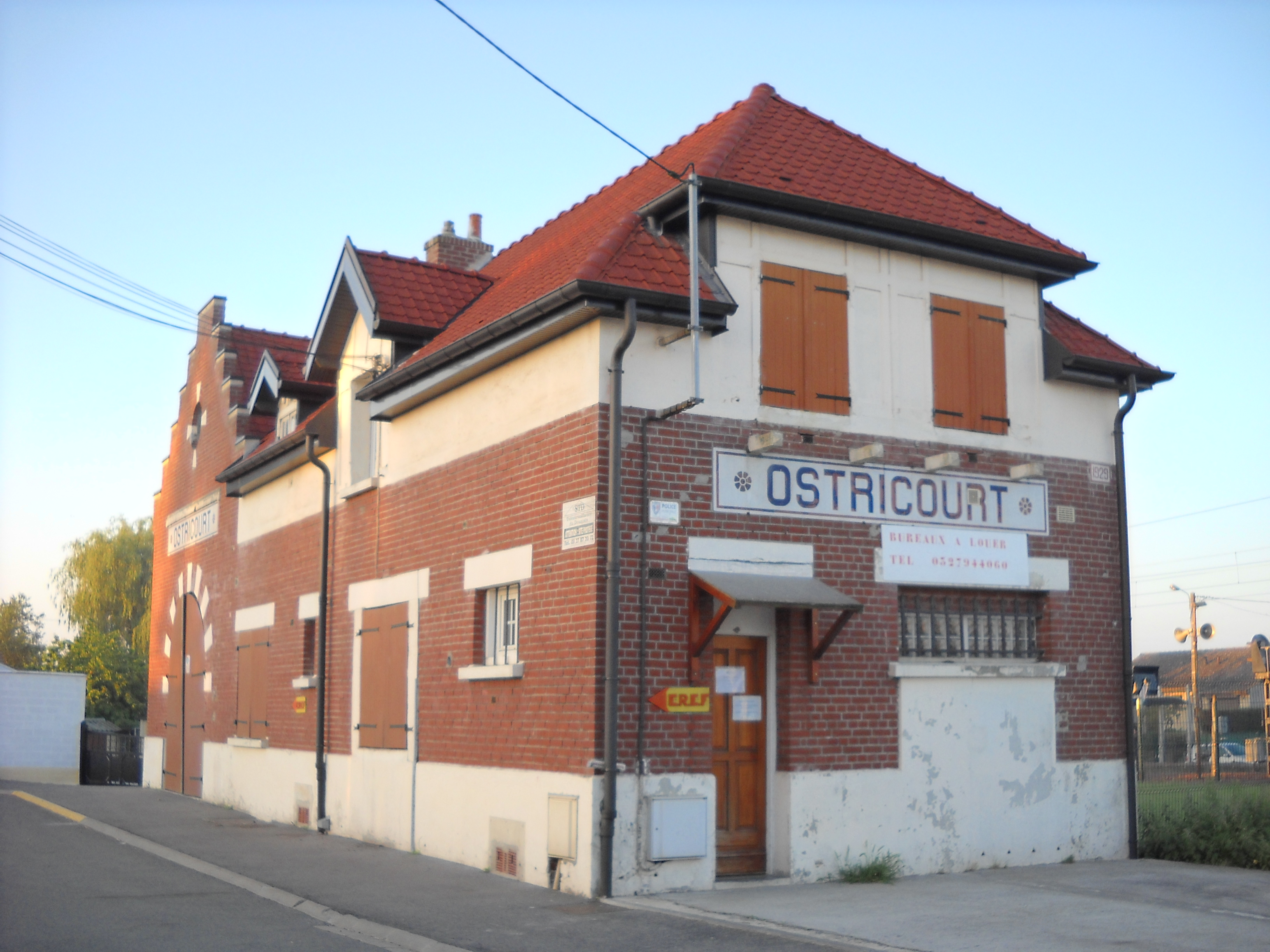 The train station of Ostricourt, Nord, France.